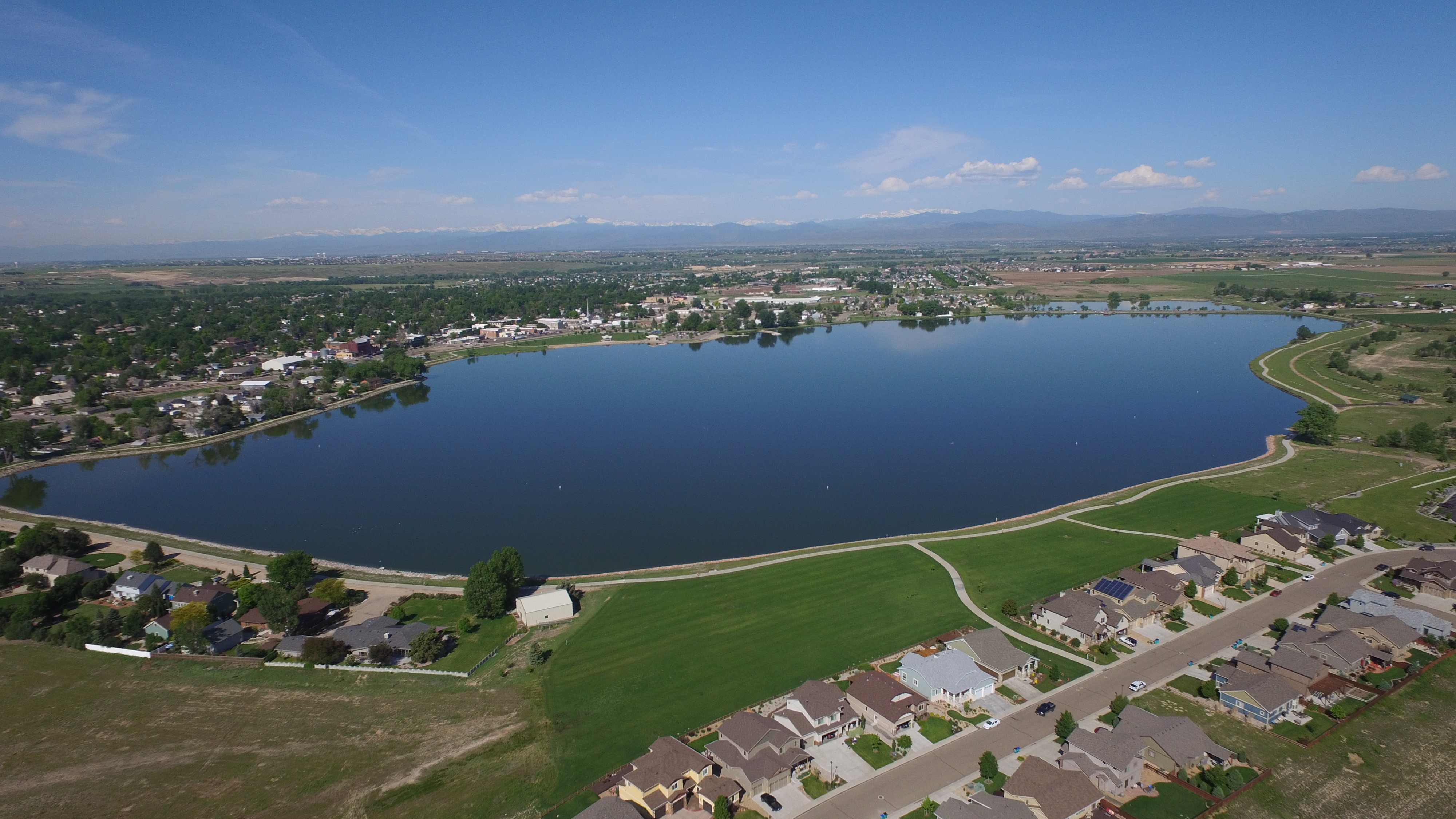 Windsor Lake ariel shot